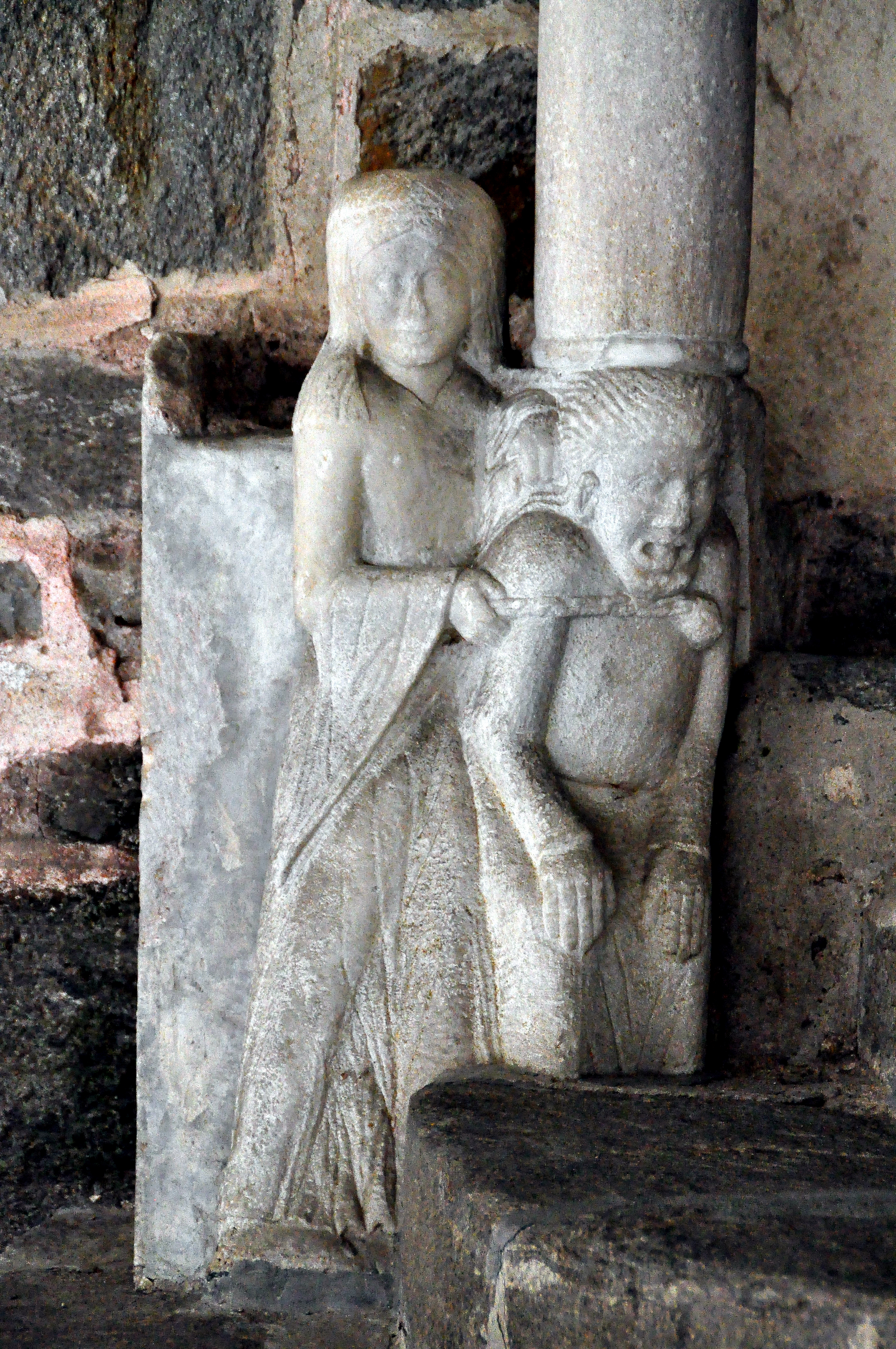 Detail of the romanesque cloister of Millstatt Abbey near Spittal an der Drau / Carinthia / Austria / EU.